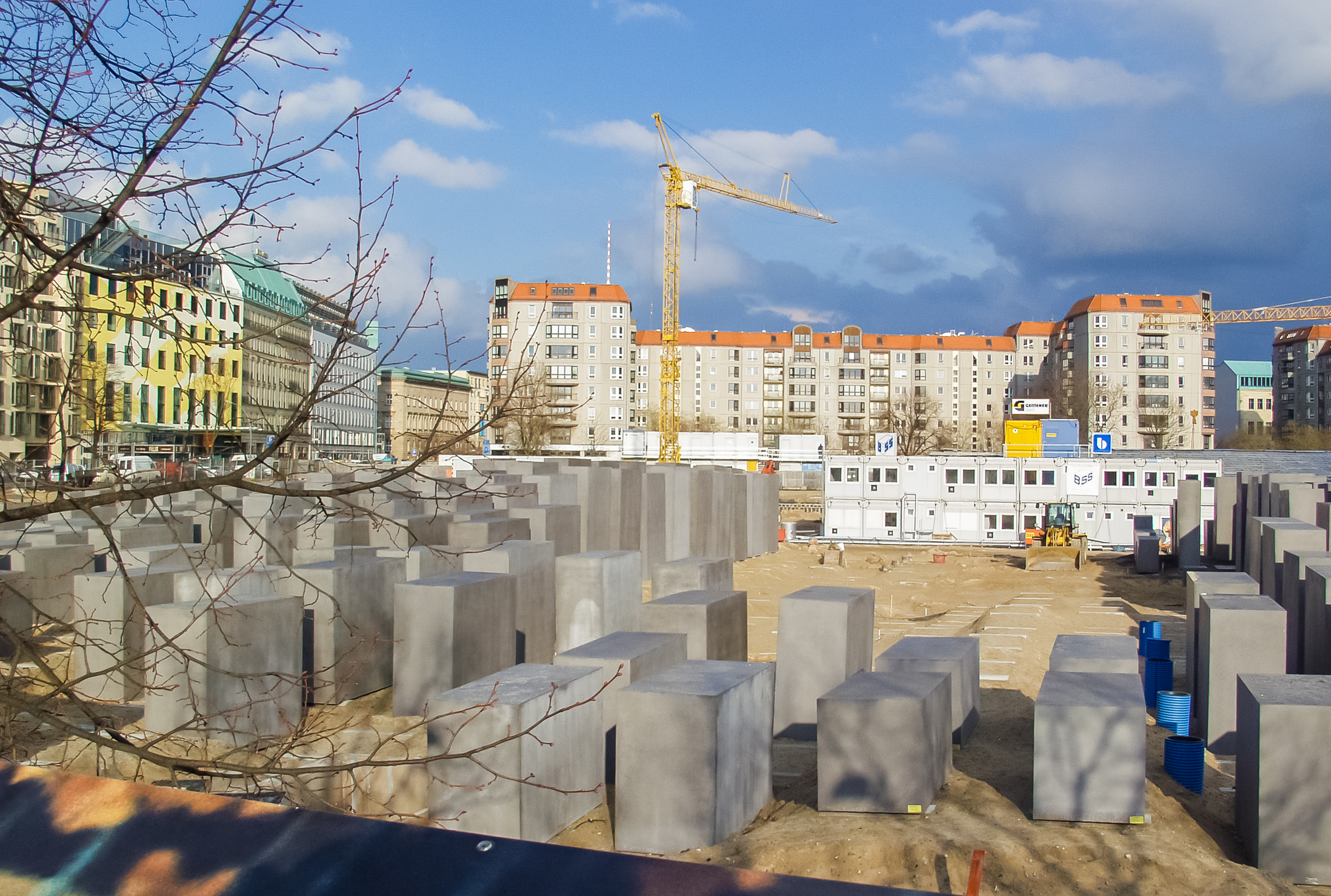 „Denkmal für die ermordeten Juden Europas“ (Memorial to the Murdered Jews of Europe) under construction, march 2004